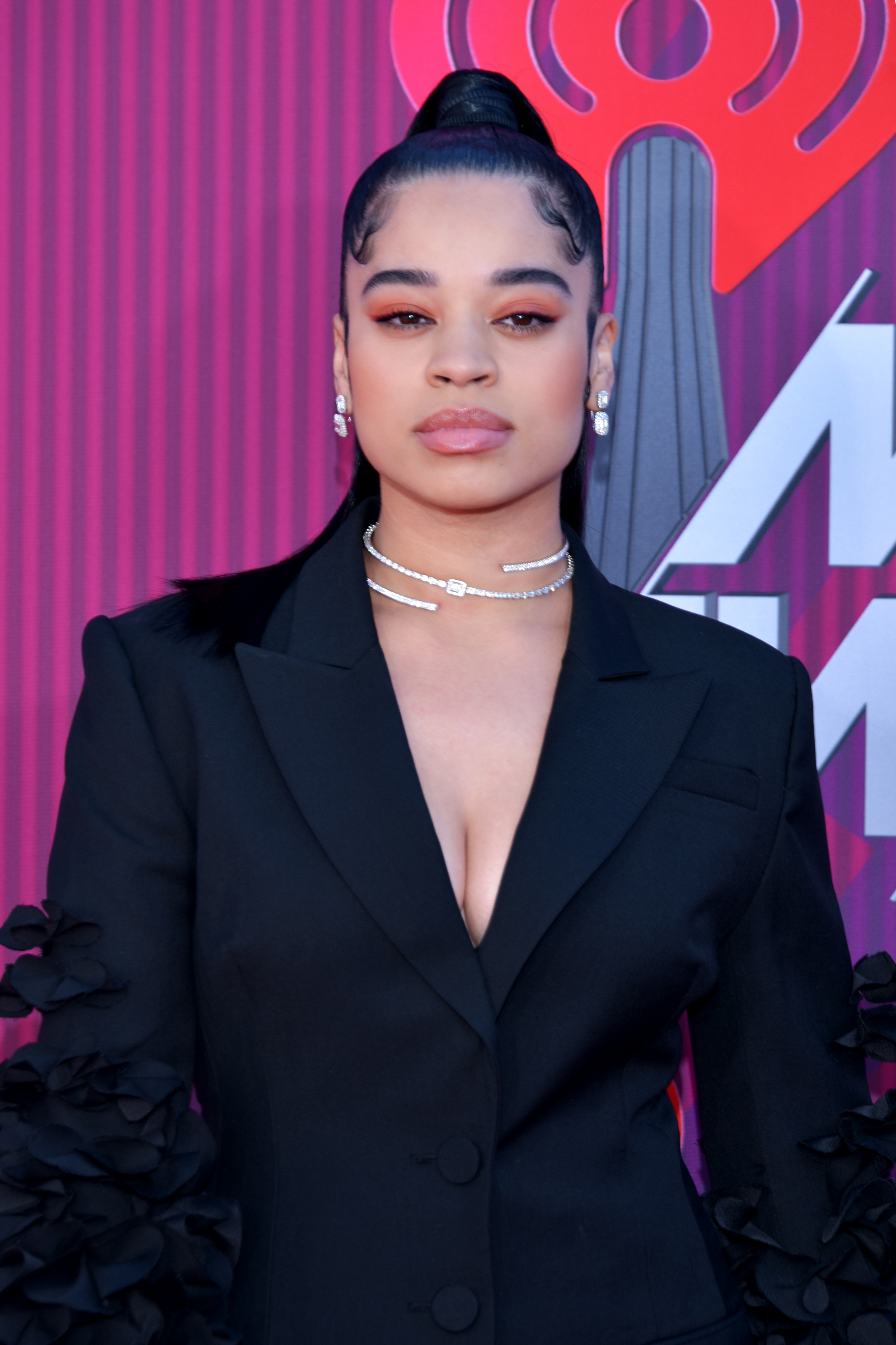 Ella Mai at the iHeartRadio Music Awards, Los Angeles, California on March 14, 2019 - Photo by Glenn Francis of